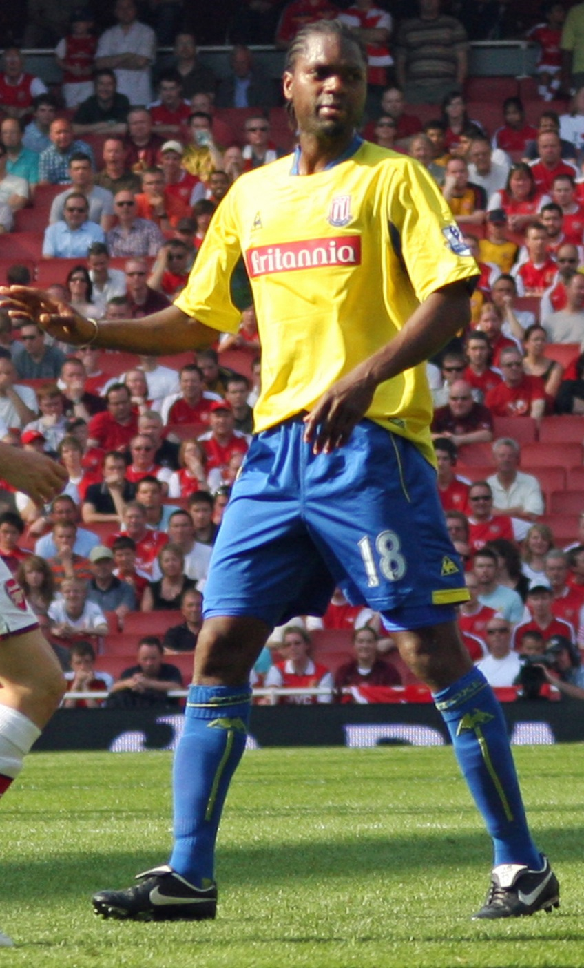 Salif Diao with Stoke City F.C. in 2009. This file has been extracted from another file: Arsenal v Stoke City FC - Cesc Fabregas.jpg